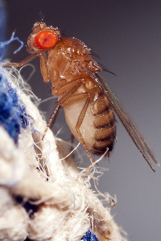 Discovered this one over the kitchen sink. It's resting on a dishtowel here. Actual size is about the same as a pinhead.